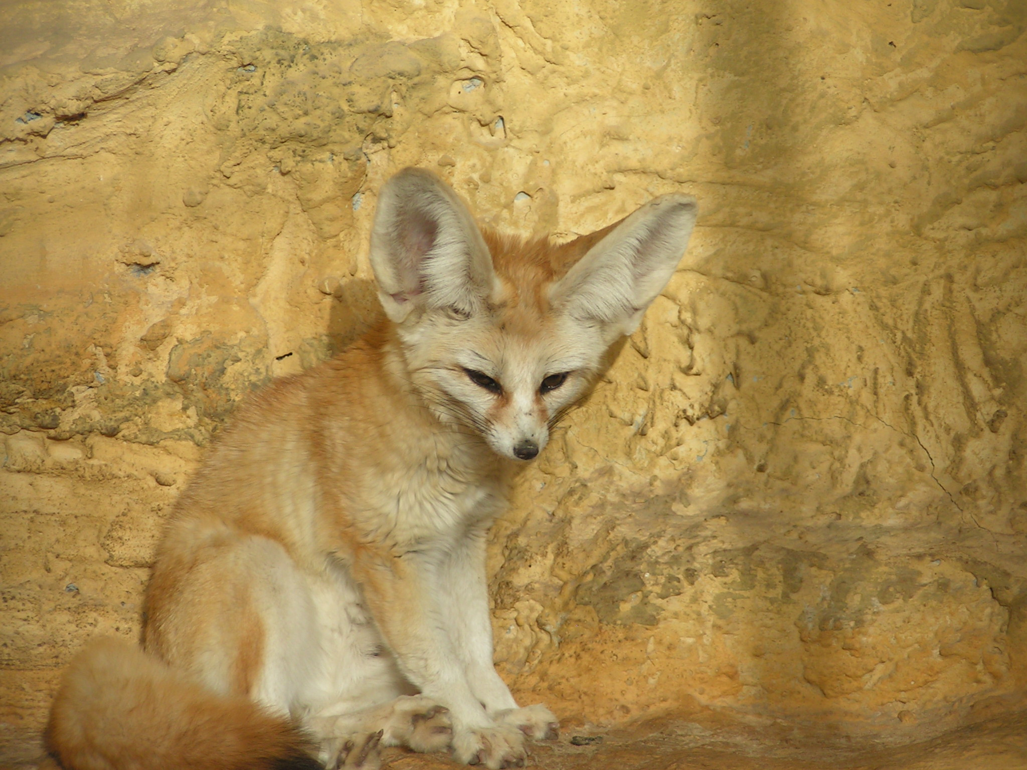 Taken in the Garden for Zoologic Research, Tel Aviv University, Israel.